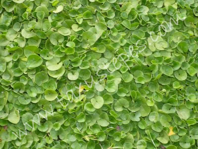 A picture about Dichondra Repens - Author Tepecenter - Taxus Tepes